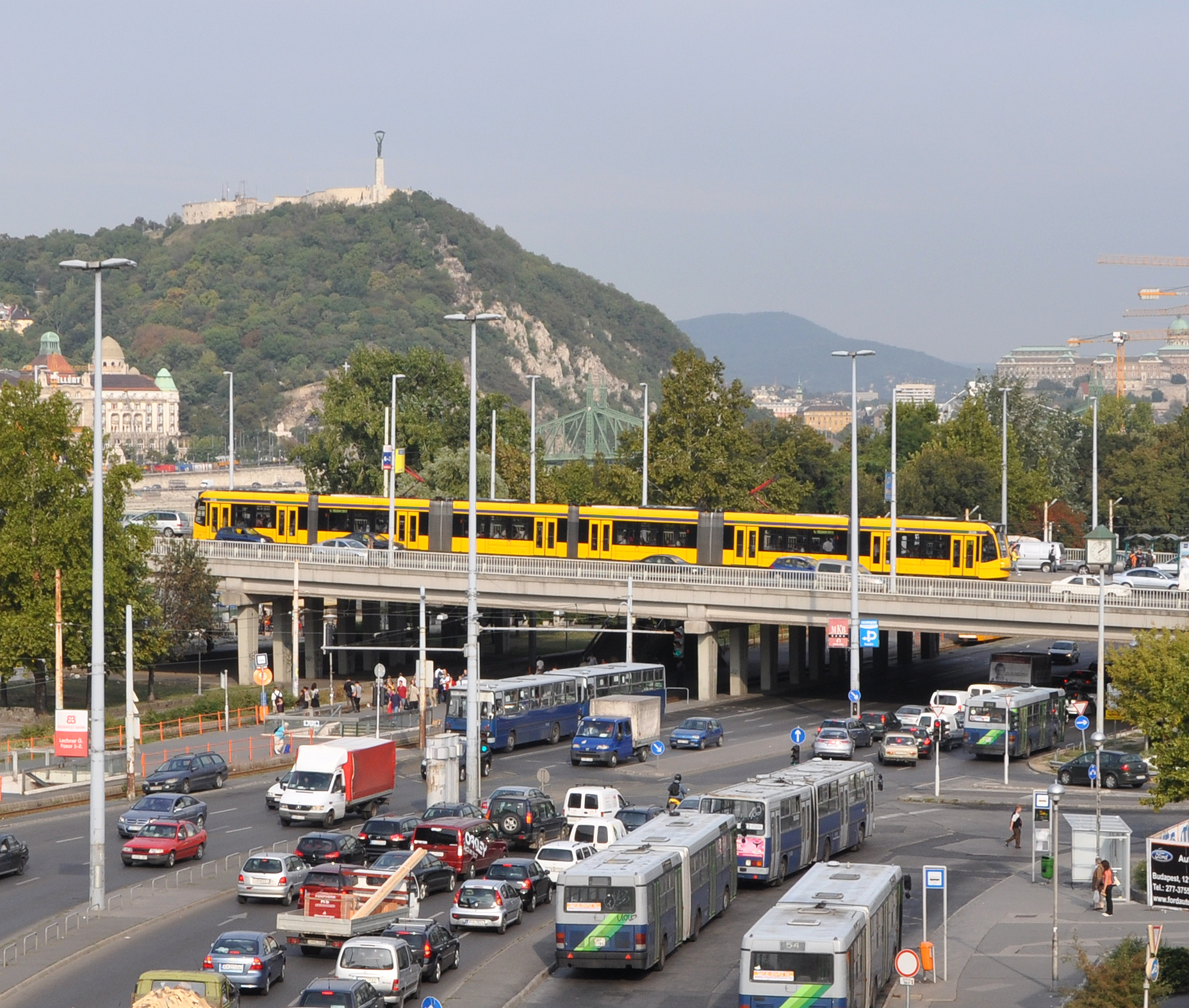 Budapest (Hungary): Boráros Square and Petöfi Bridge, with a Combino tram built by Siemens